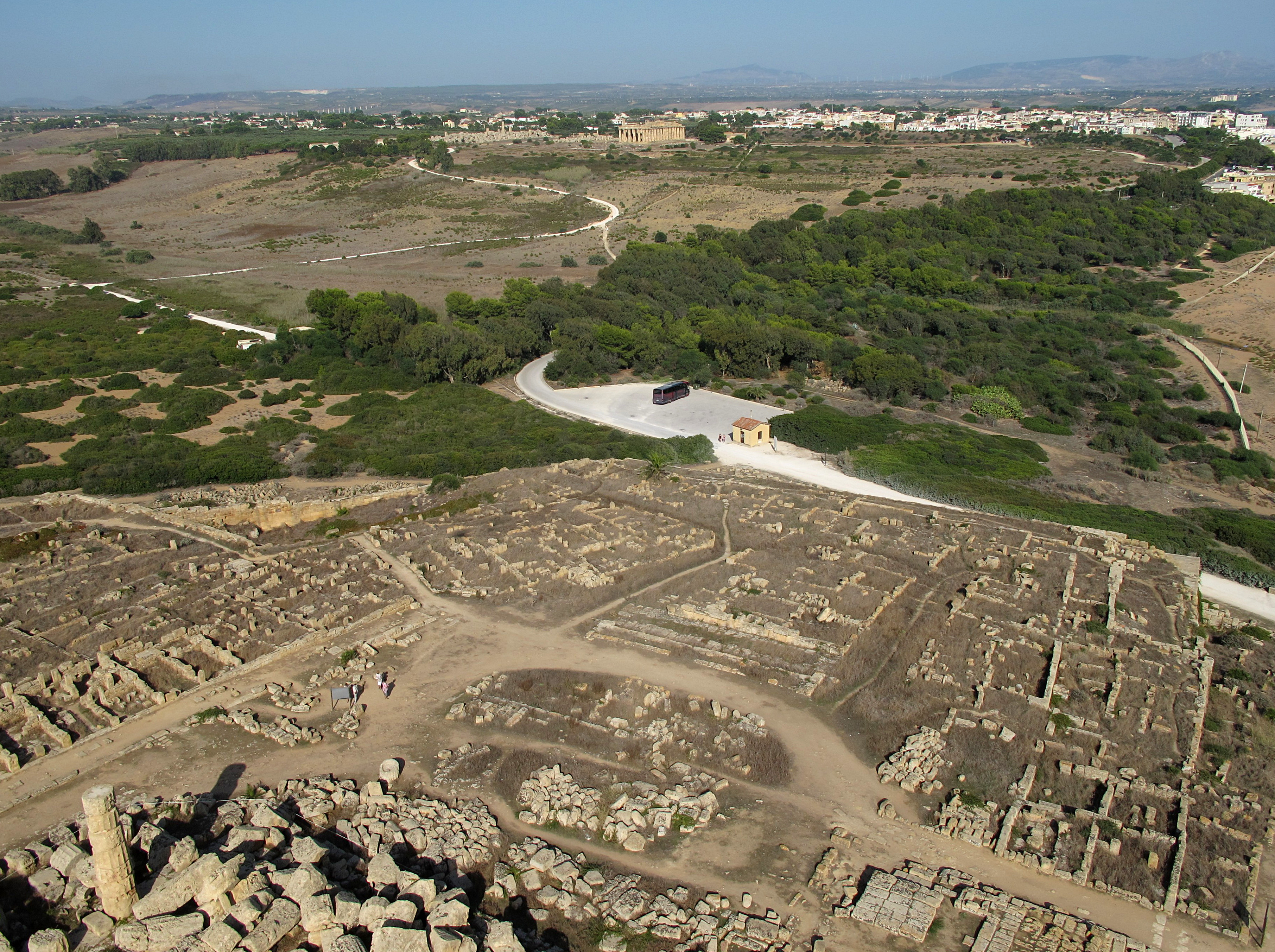 Selinunte (Sicily): Settlement structures on the northeastern part of the acropolis. In the background, below the horizon, the eastern hill with Temple E. Picture taken by kite aerial photography (KAP).